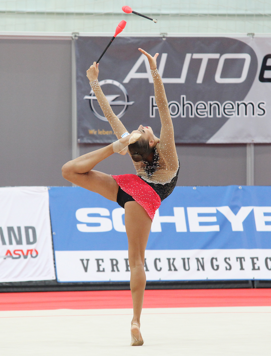 Grand Prix Rhythmic Gymnastics in Austria (Hard) 2012. Jewgenija KanajewaOlympic individual gold medalist.